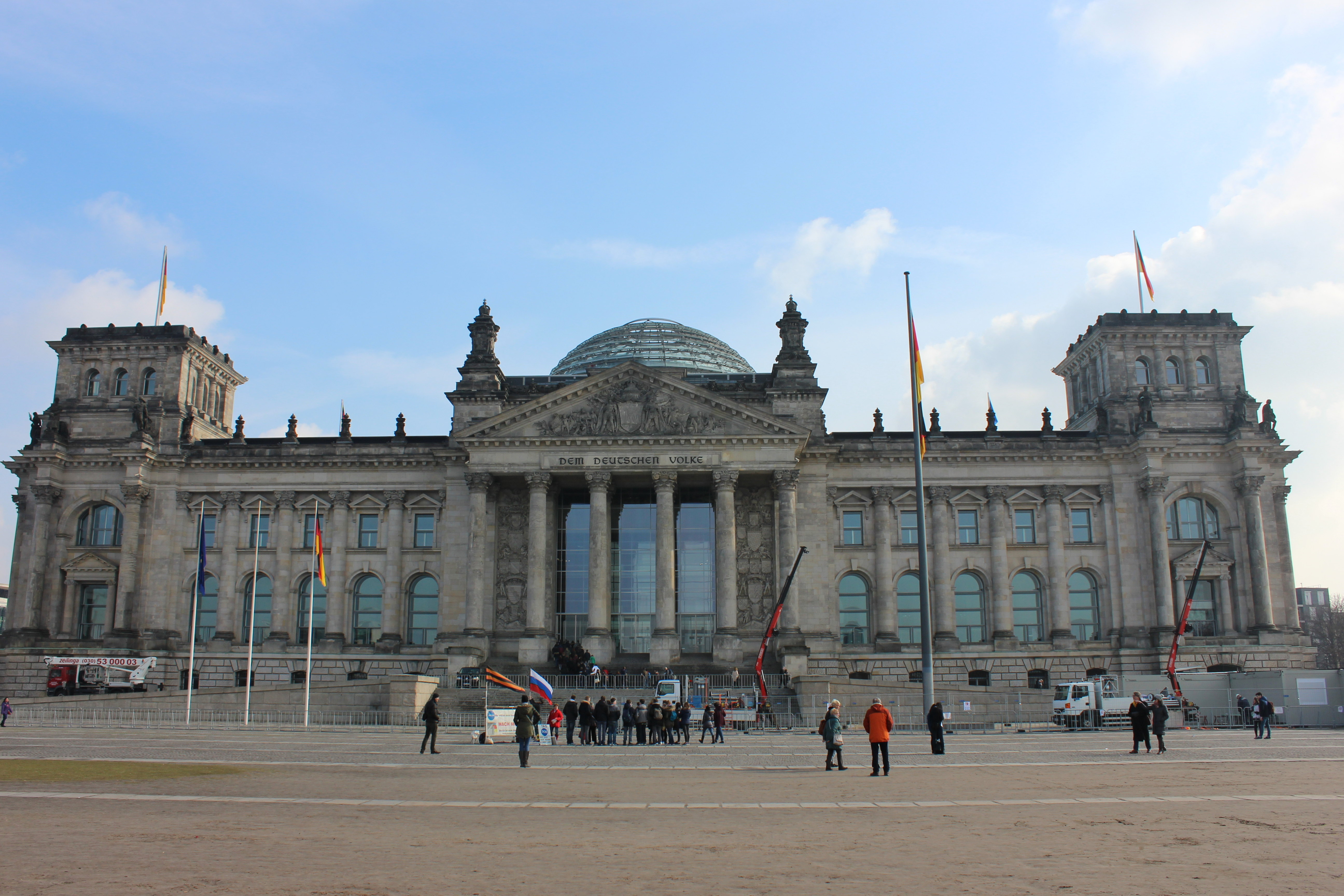 Reichstag building.